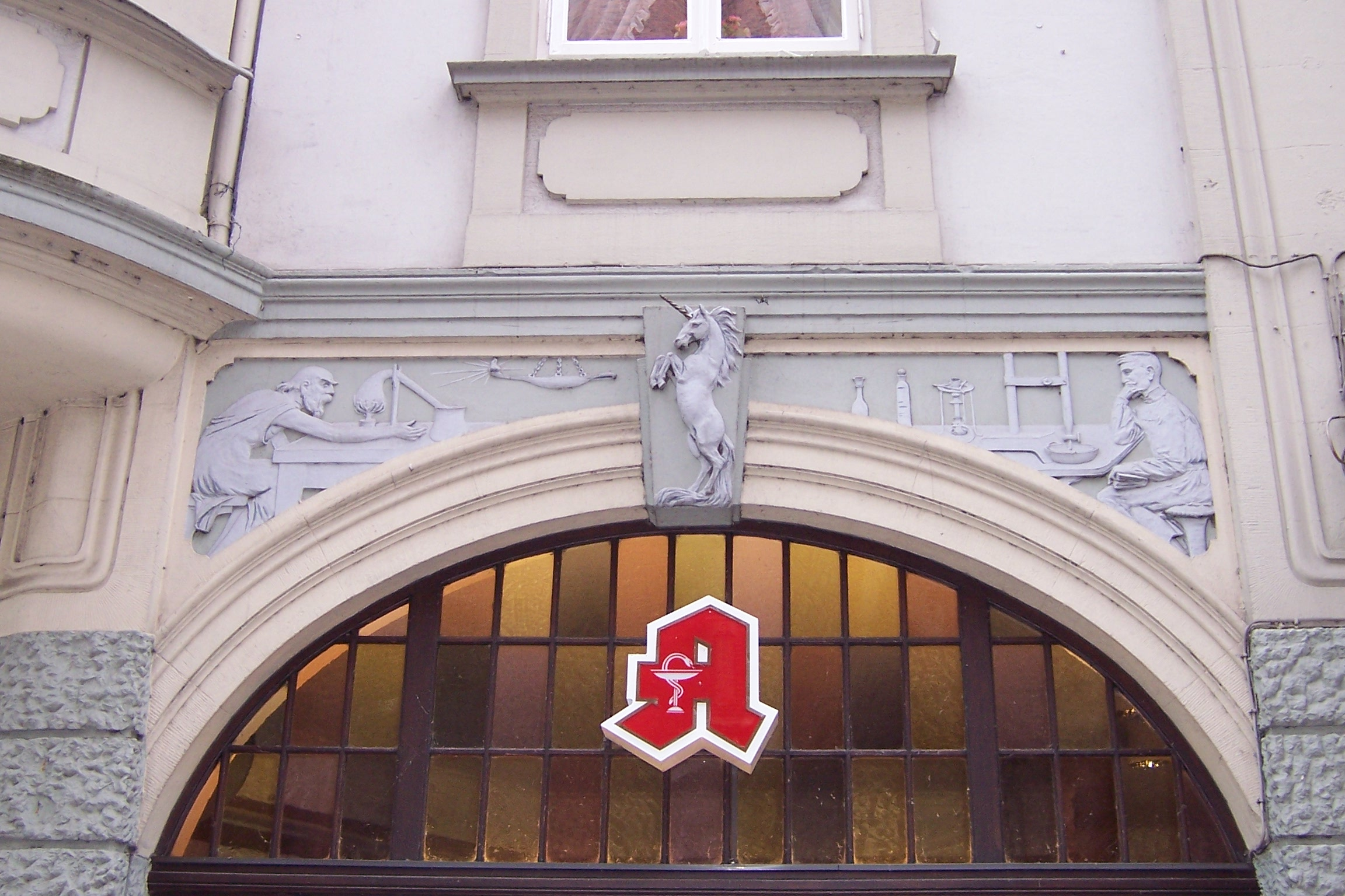 The entrance to a pharmacy with pharmacy sign, unicorn and illustration of an ancient and a modern pharmacist, around 1900, in Oldenburg (Oldenburg), Germany.